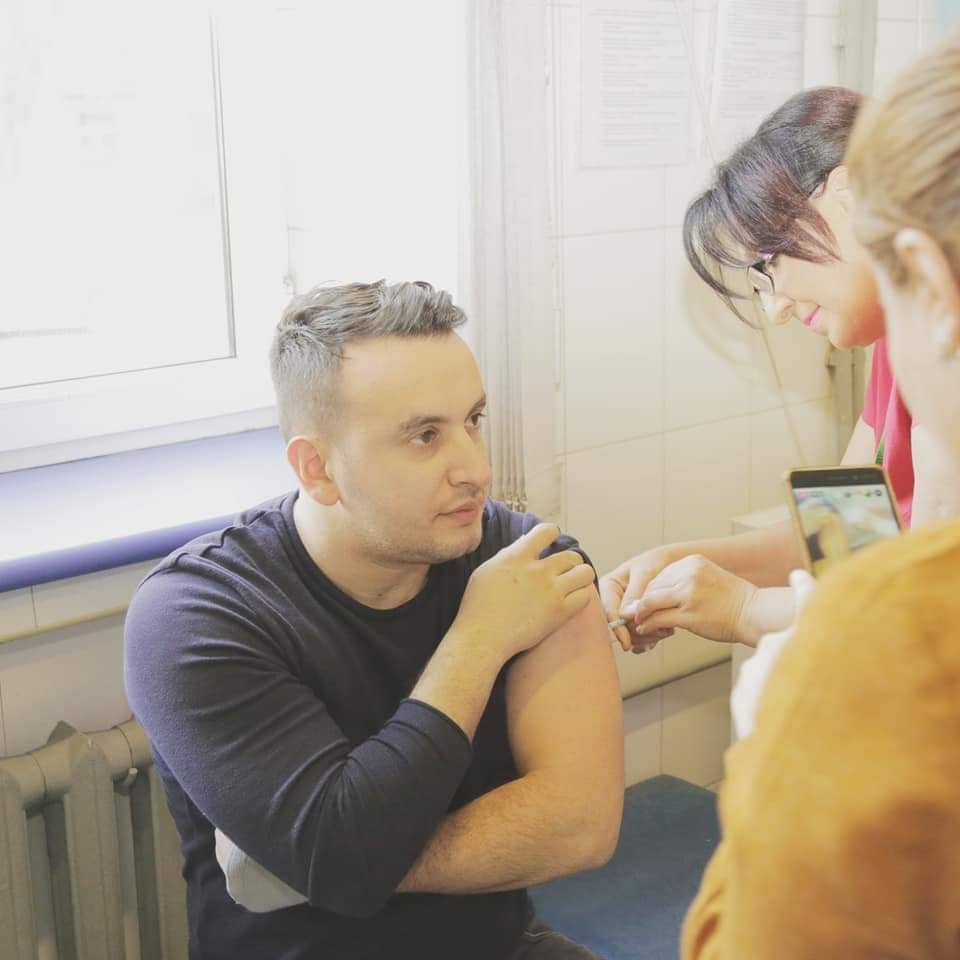 Gardasil in Armenia